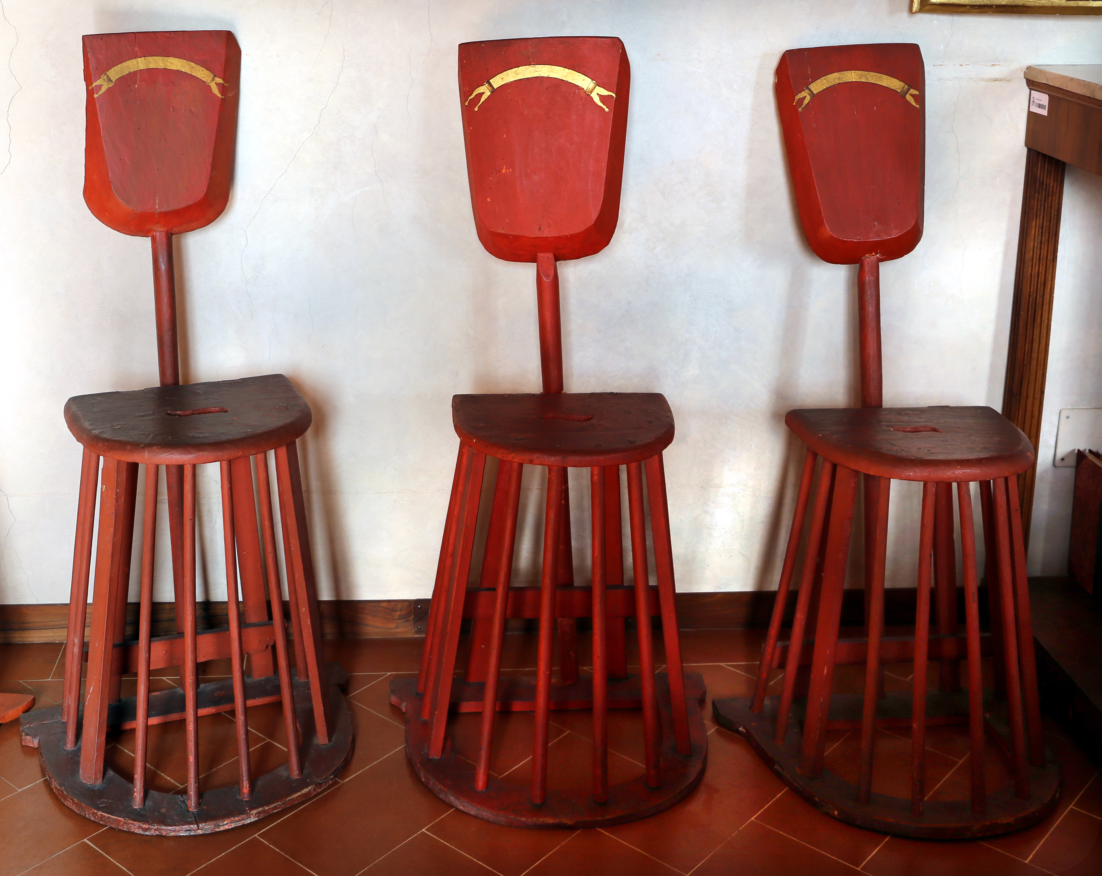 Accademia della Crusca